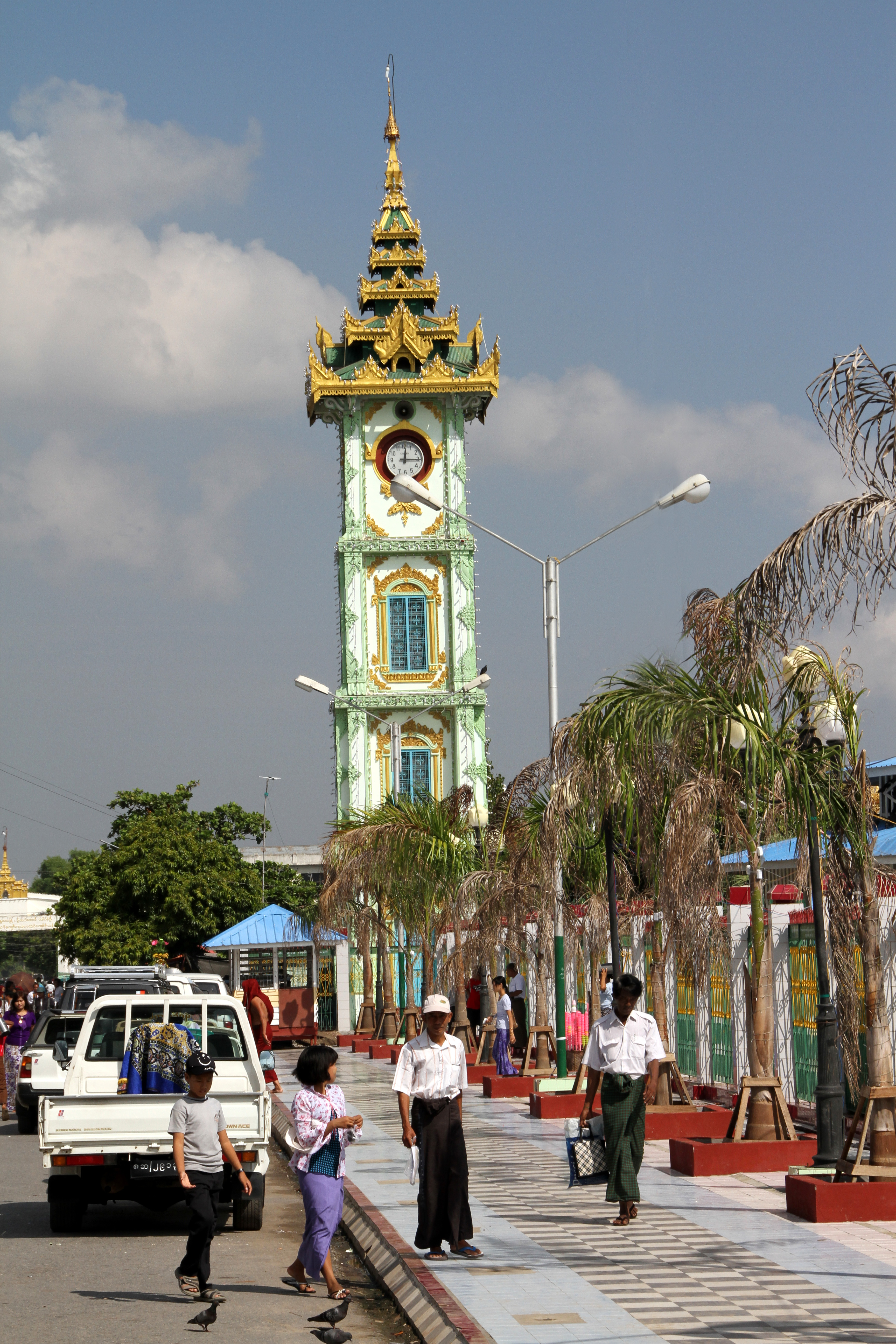 Mahamuni Pagoda in Mandalay in Myanmar.